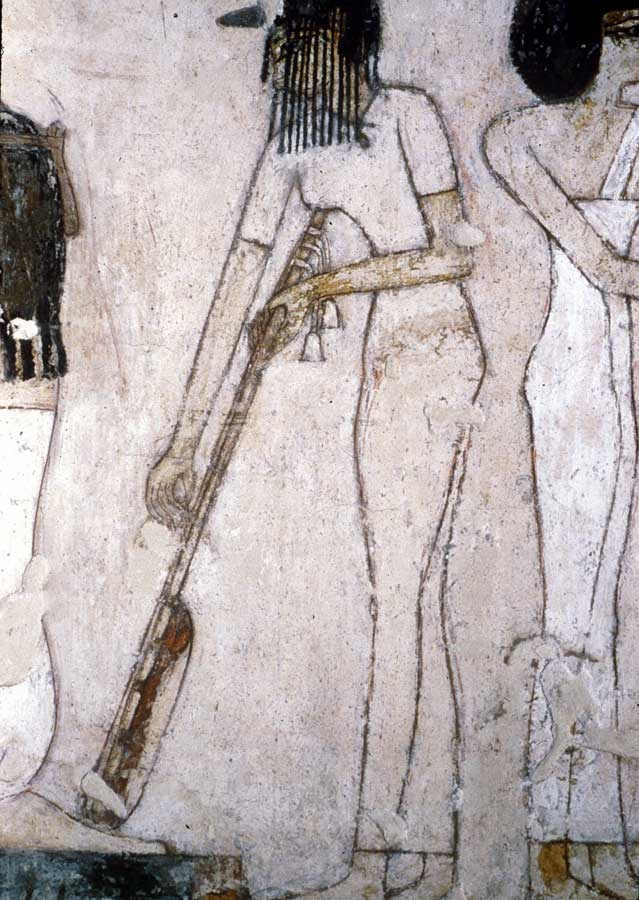 Female musician tuning her Egyptian lute, pulling the string upward from below while the hand at the top secures the tension. A linen string wrapped around the string being tightened (one of the tassels) will secure the string for playing. From Rekhmire's tomb in Thebes, TT100 (Thebian tomb 100).